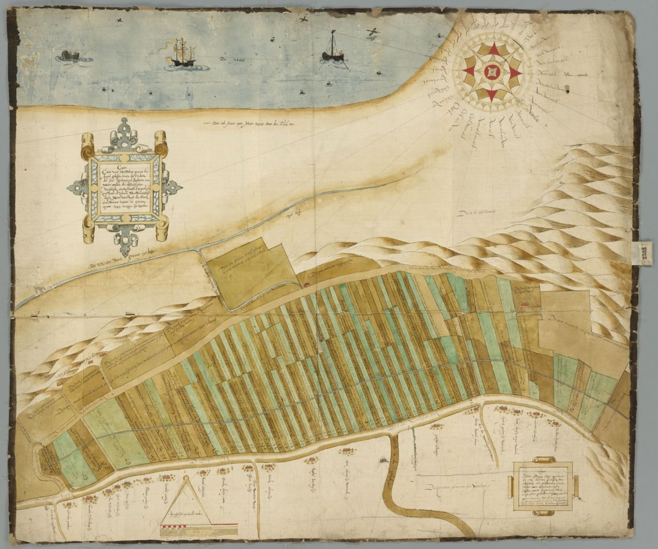 Kaart van den polder het Nieuwland, genaamd den Andel